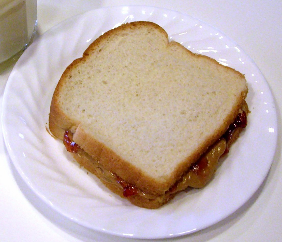 Peanut butter and jelly (jam) sandwich with a glass of milk.